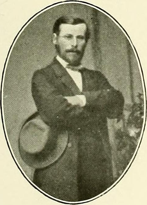 Portrait of the German botanist Ernst Stizenberger (1835-1895)